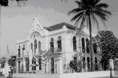 Antiga Sede do Banco Nacional Ultramarino em Bolama, Guiné, hoje ocupado como Hotel Turístico.